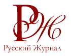 Russian Journal website logo (Russian version)